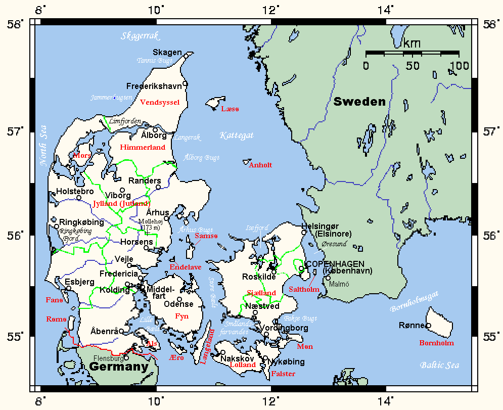 Map of Denmark showing main towns, highest point, and other information. This map was created at Online Map Creation and may be considered PD. This map's source is here, with the uploader's modifications, and the GMT homepage says that the tools are released under the GNU General Public License.